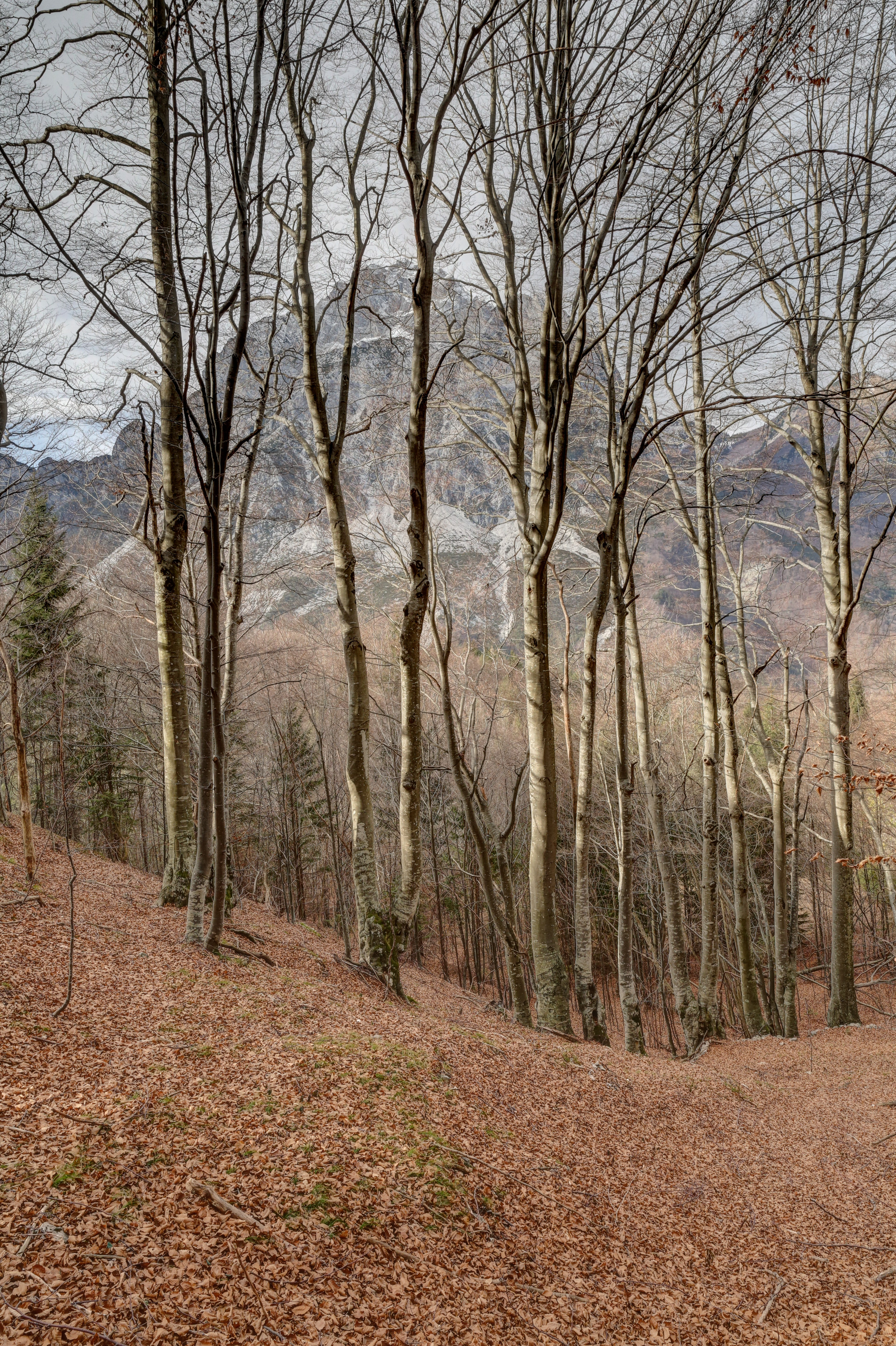 Creta Grauzaria (2.065m) seen from hamlet Drentus above Dordolla in the Val d'Aupa in the Carnic Alps, community Moggio Udinese / Friuli-Venezia Giulia / Italy / EU.